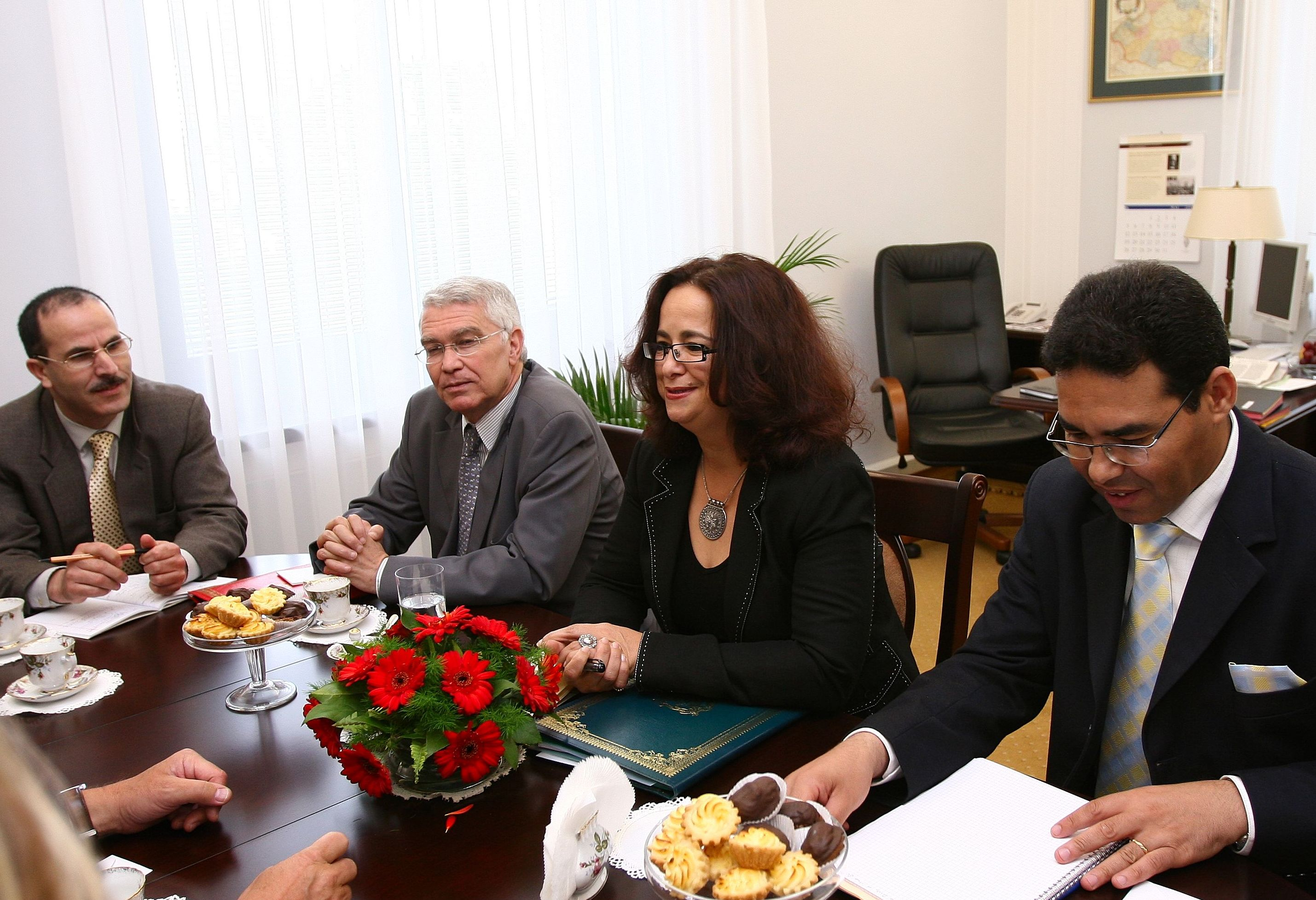 Deputy Minister for Foreign Affairs and Cooperation of Marocco Latifa Akherbach in the Polish Senate